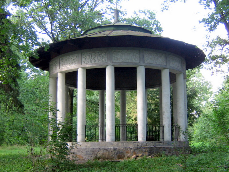 Pavilion in garden, in Ukraine